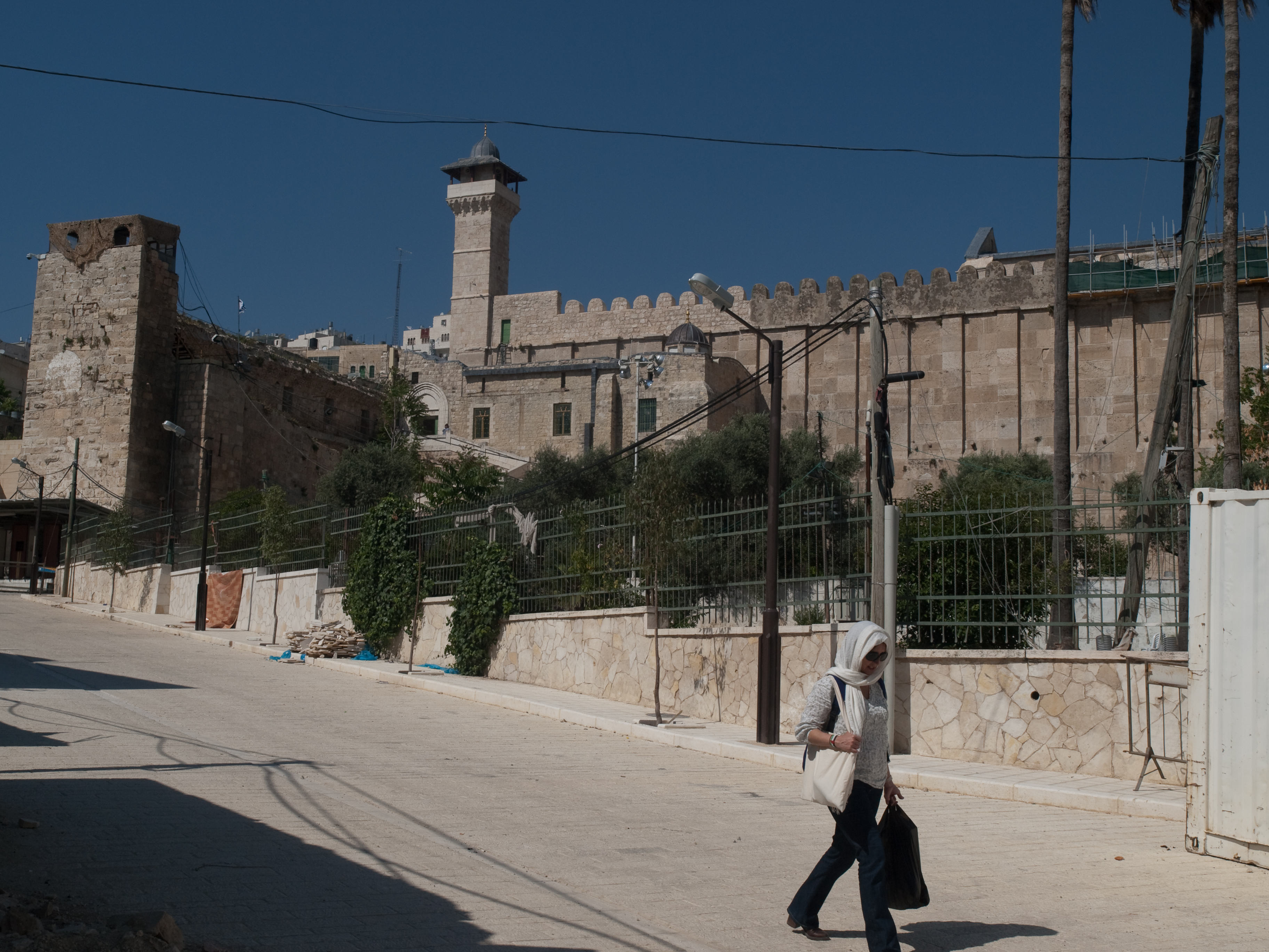 Empty plaza around the Ibrahimi mosque